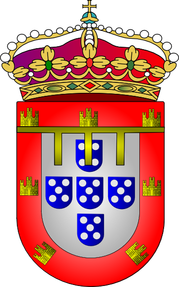 Arms of the Prince heir of Portugal. Made by JSobral